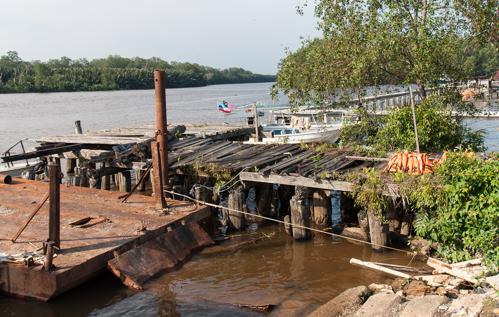 Weston, Sabah: The jetty - the place of the former terminus of North Borneo Railway in Weston (Sabah)